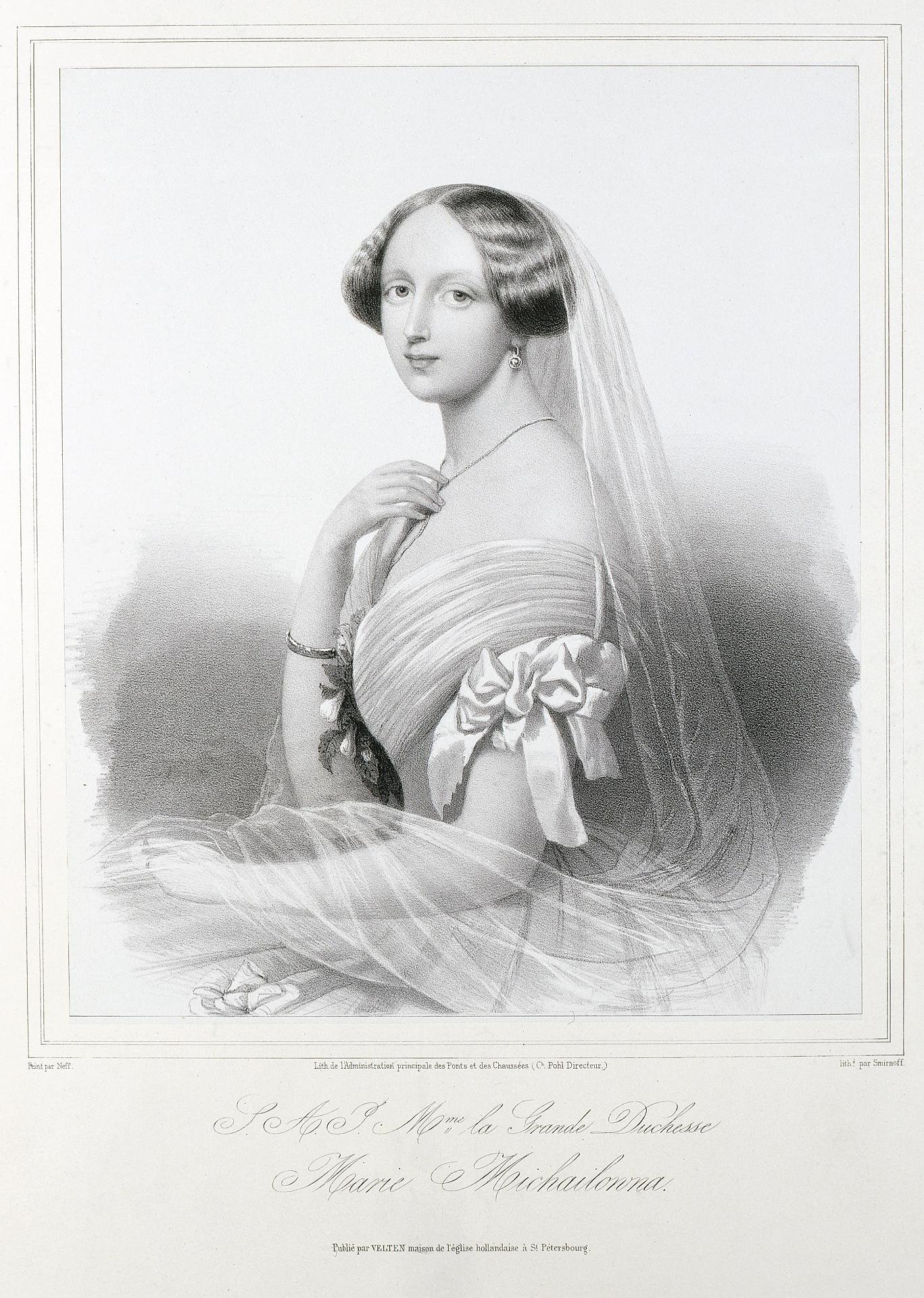 Maria Michailovna (1825-1846)